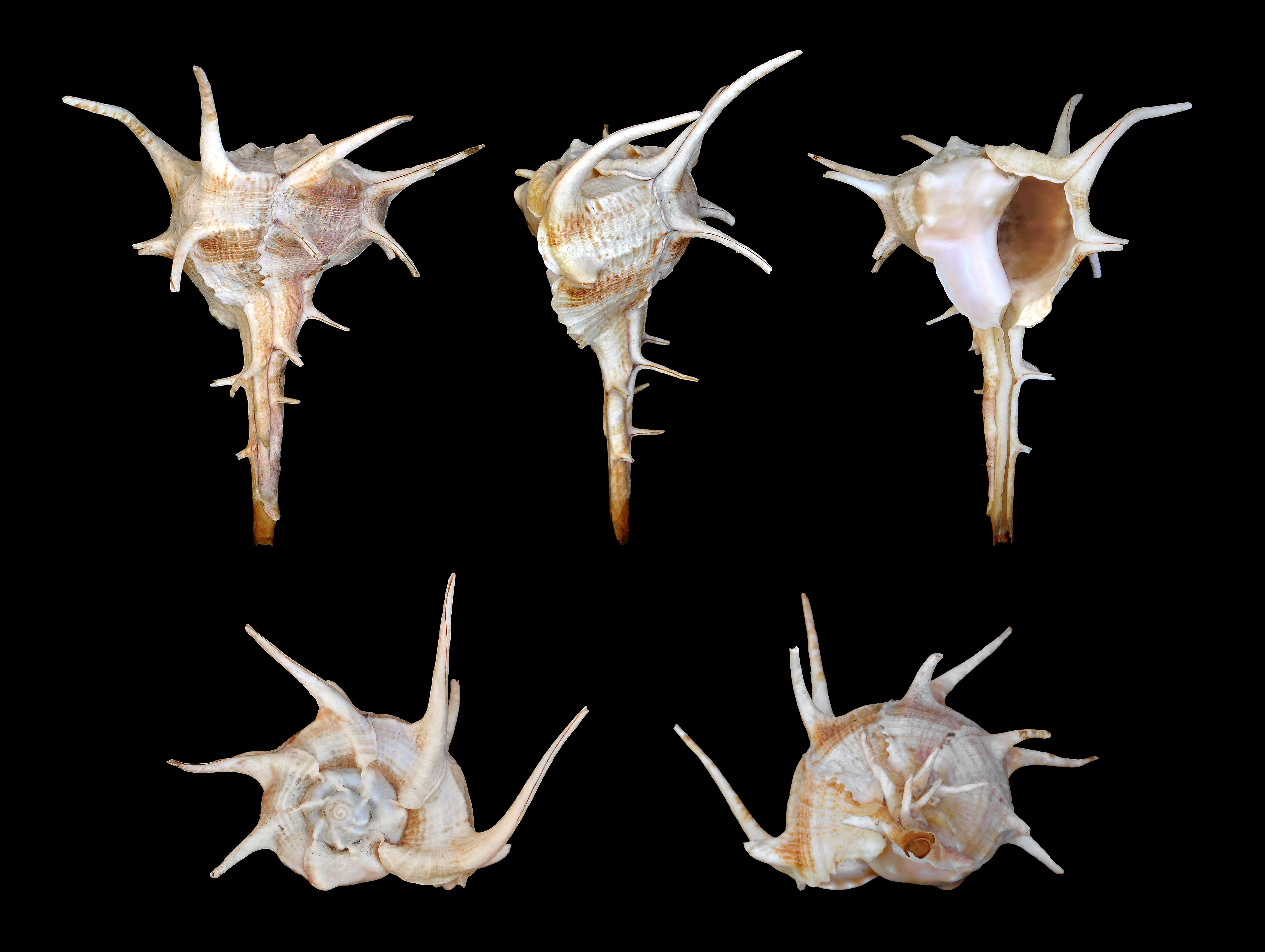 Length 13.5 cm; Originating from Nouadhibou, Mauritania; Shell of own collection, therefore not geocoded.Dorsal, lateral (right side), ventral, back, and front view.